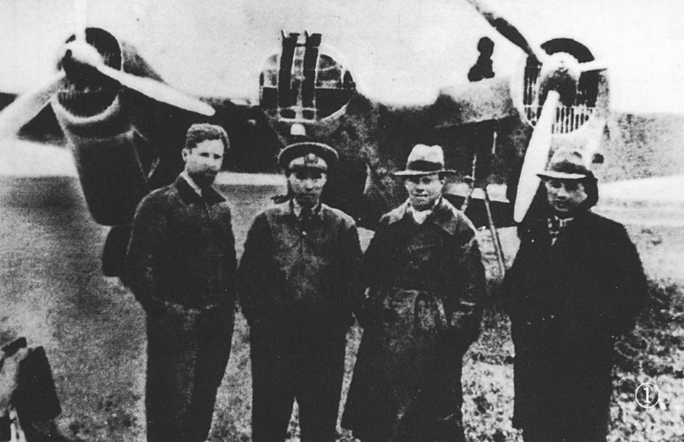 Soviet aviators at Hankou airfield. From left to right, B.B.Kamonin, Chinese pilot, Aleksey Andreyevich Lebedev(Лебедев, Алексей Андреевич), interpreter.